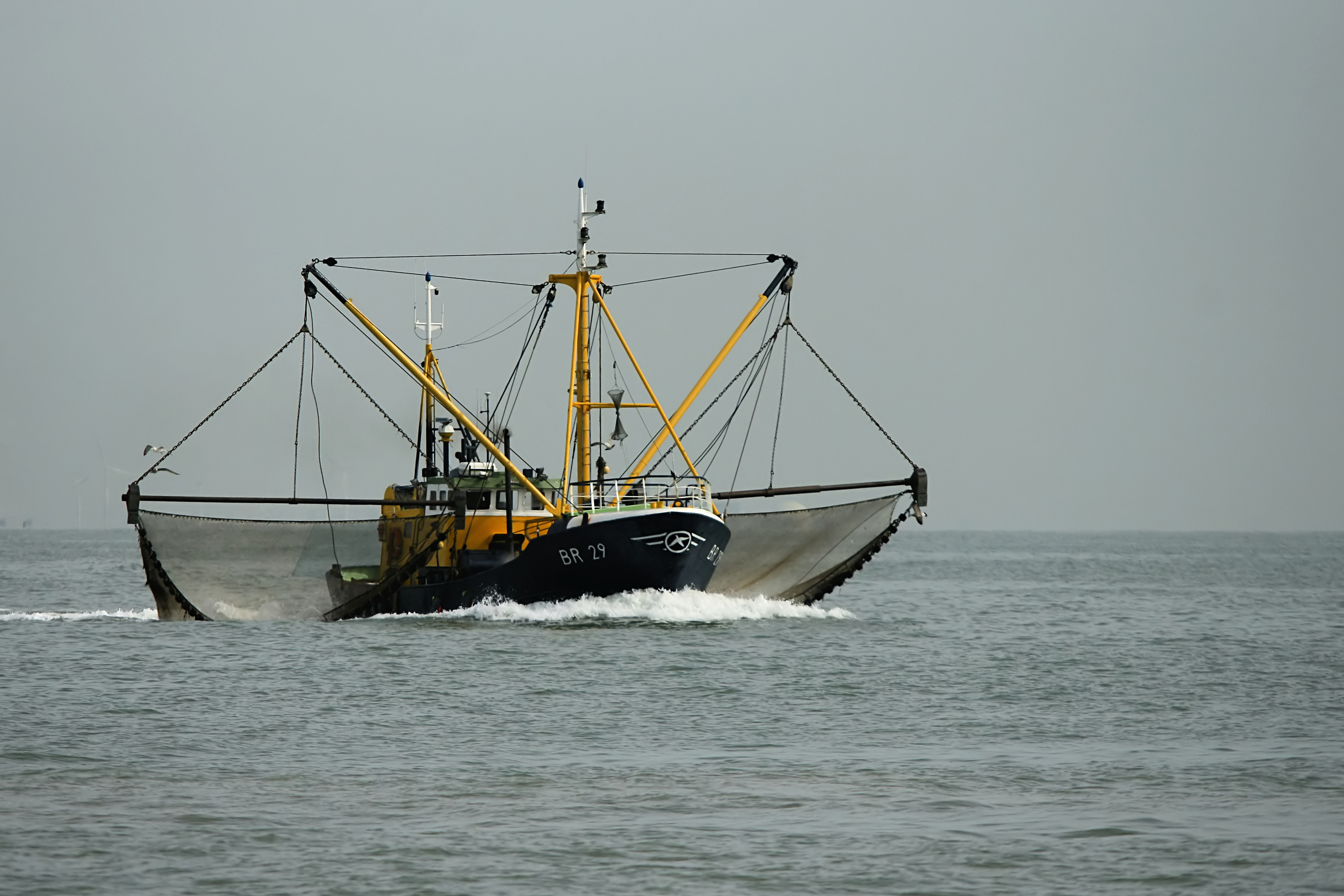 BR.29 Eendracht.